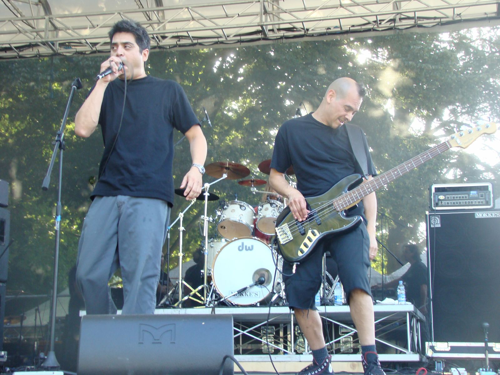 Fates Warning at Evolution Fest in Florence, Italy